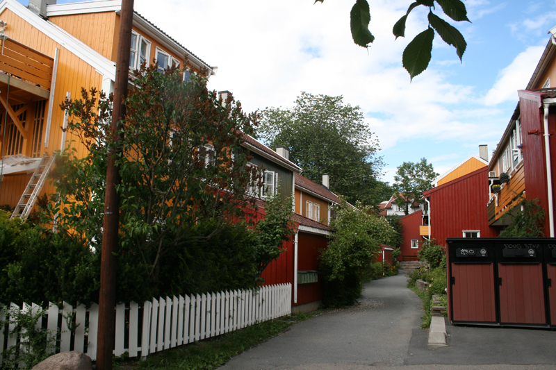 The small street Snippen at Rodeløkka in Oslo